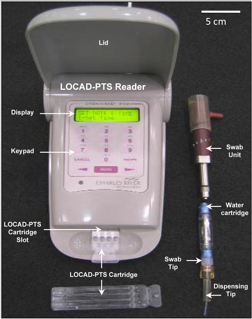 The Lab-On-a-Chip Applications Development Portable Test System (LOCAD-PTS). It was launched to space on December 9 2006 aboard Space Shuttle Discovery (STS-116) and has remains in space to this day aboard the International Space Station (ISS).